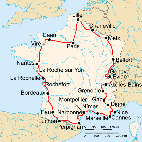 Route of the 1935 Tour de France, starting and finishing in Paris. The black dots are the cities that hosted a stage start and finish, the grey dots are the cities where a split stage was split.